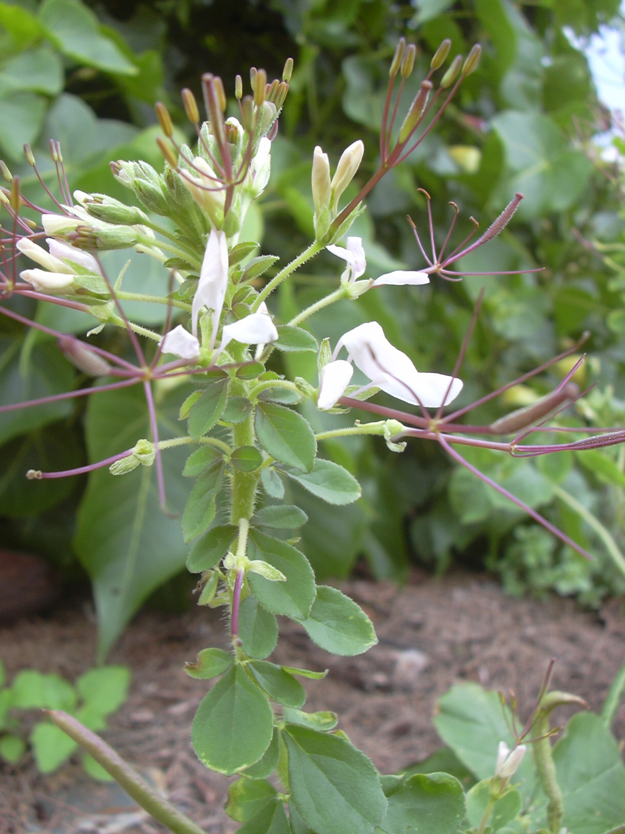 Cleome gynandra (flowers). Location: Maui, Kanaha Beach